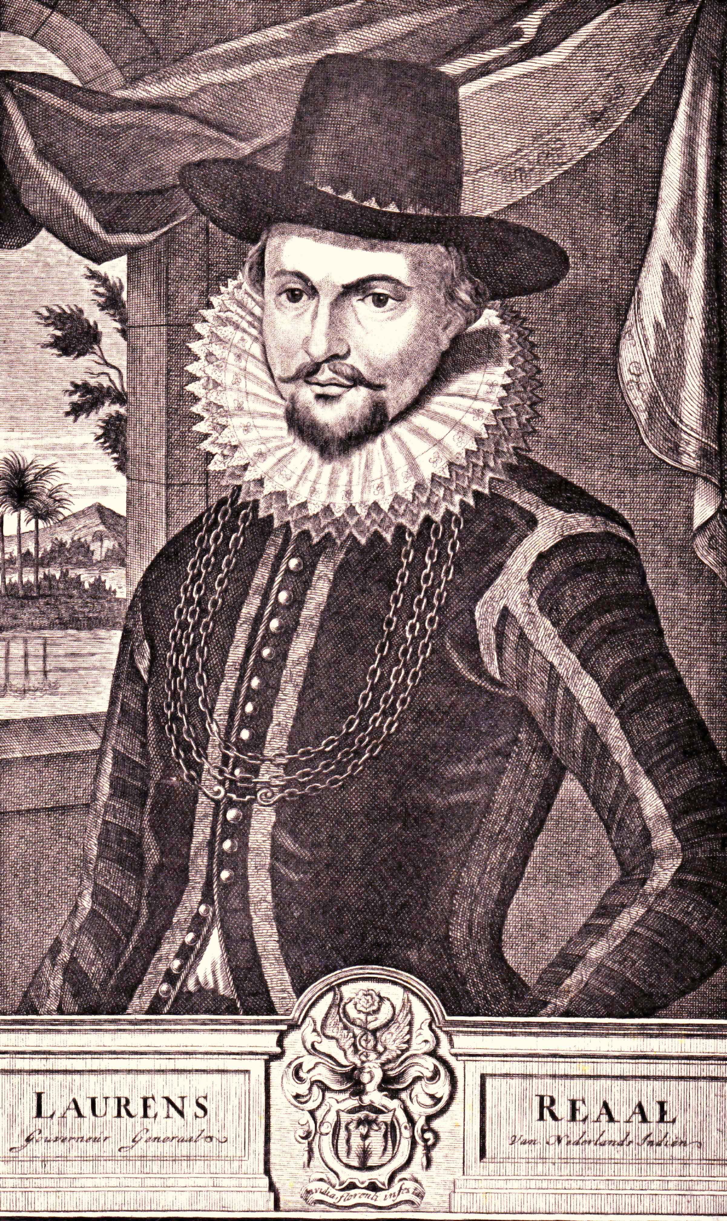 Laurens Reael